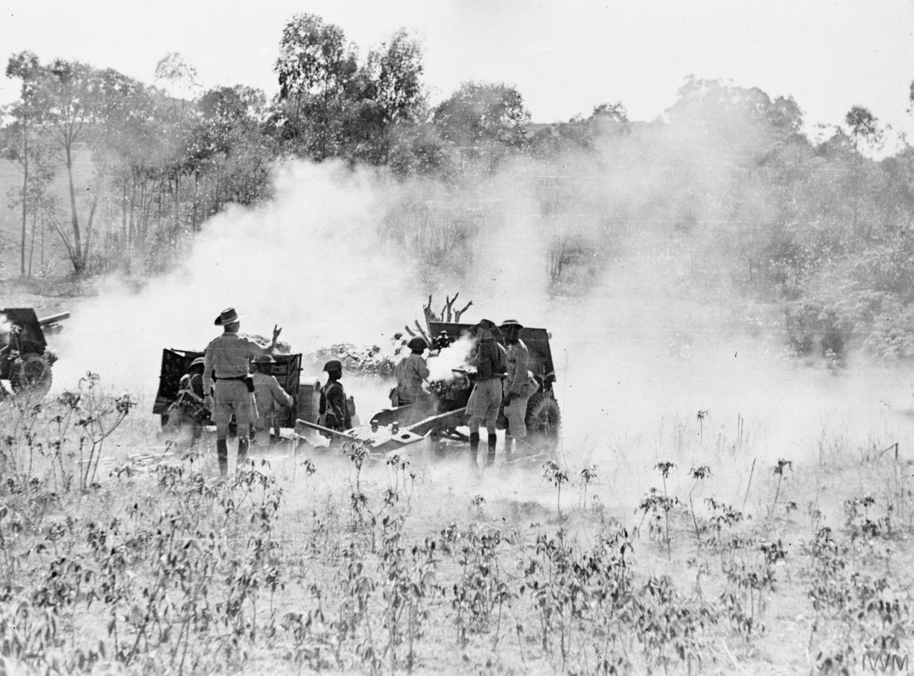 September 1942 Uganda Battery of Kings African Rifles in action against the Vichy-held positions near Ambositra, Madagascar.